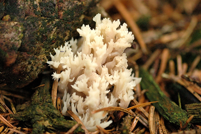 Clavulina coralloides from Commanster, Belgium. The determination of the species shown in this picture has been verified.